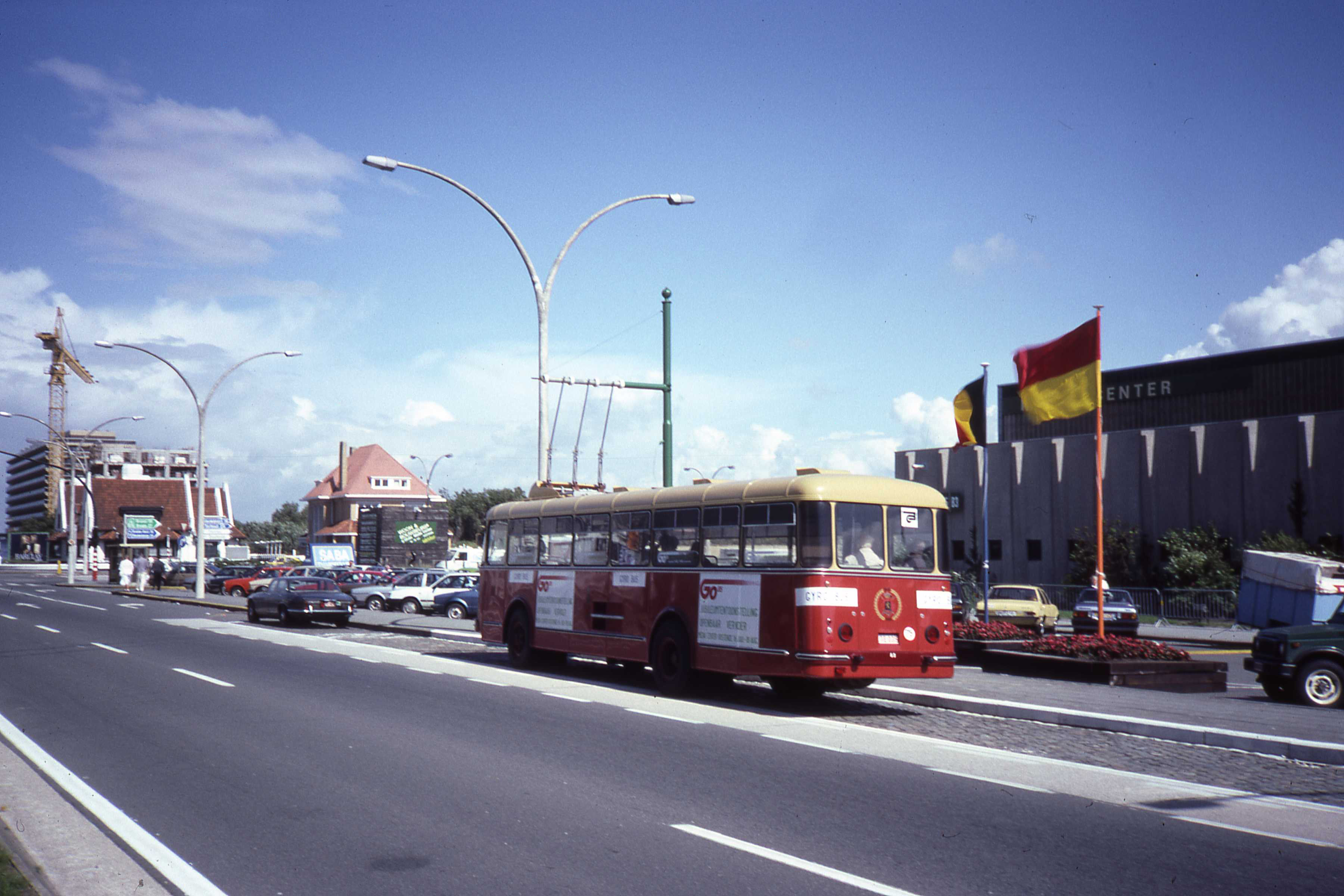 A demonstration Gyrobus loading up the flywheel at the electric loadpoint, where the three current fases are used. This is in Ostend with the festivities for the 100 years off vicinal railways in 1985. The location is close to the "renbaan" stop.